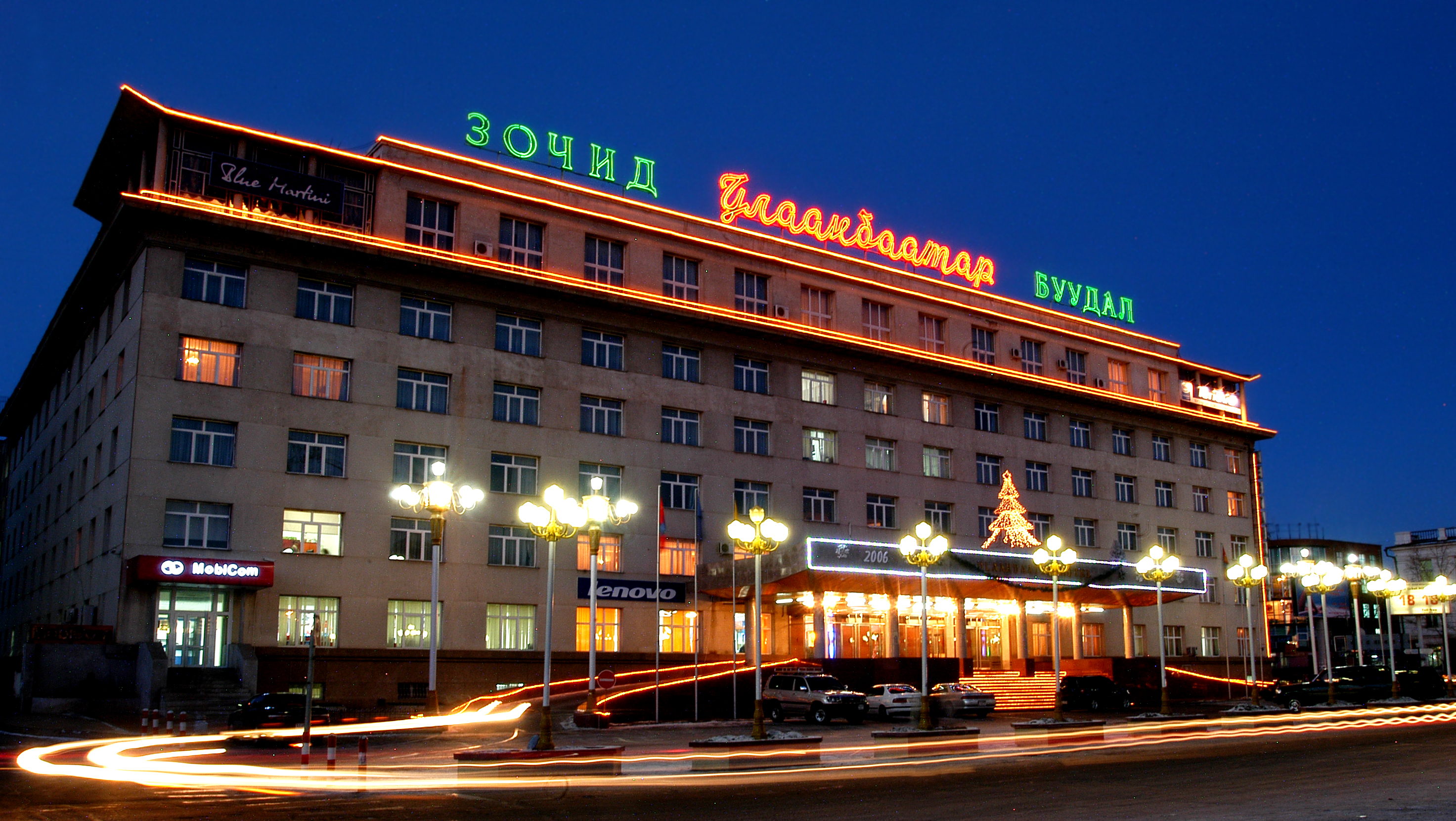 Hotel Ulaanbaatar, Ulan Bator, Mongolia